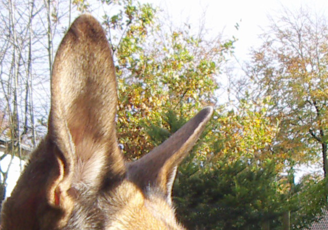 Ears of a dog